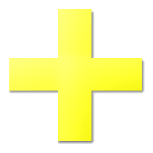 Greek Cross